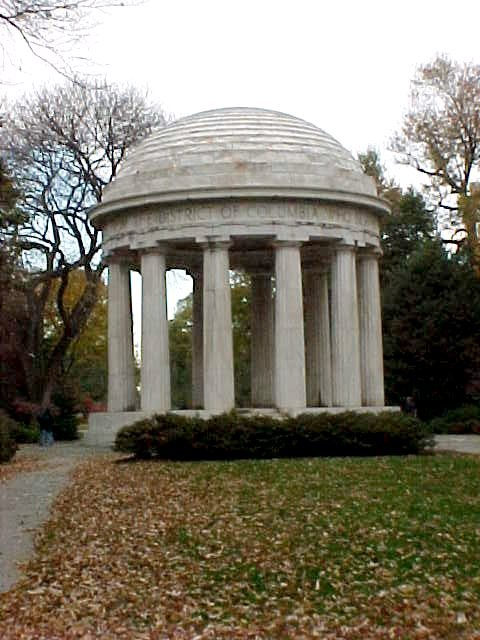 District of Columbia World War Memorial